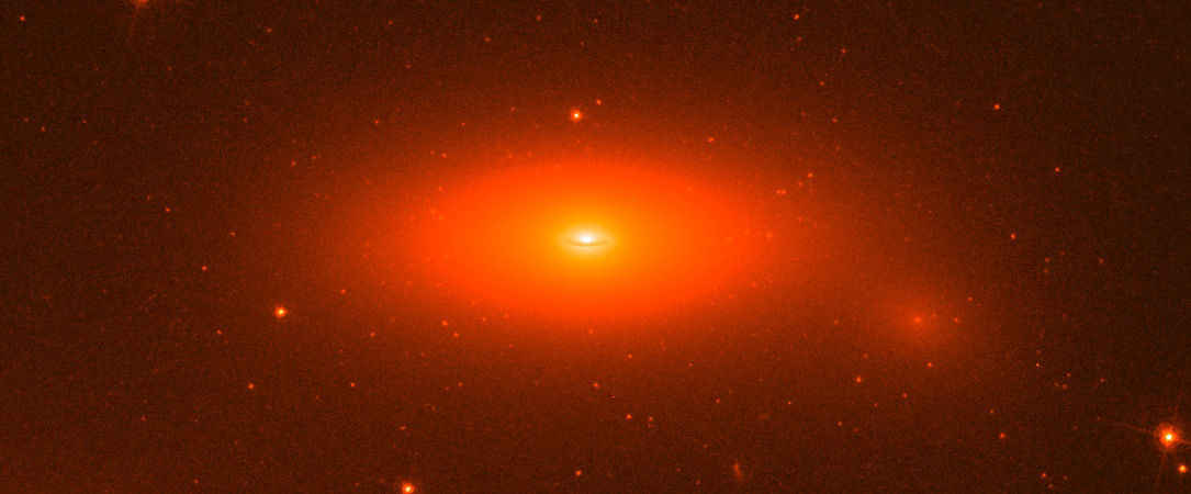 This is an image of NGC 1277 taken by the Hubble Space Telescope. NGC 1277 is a lenticular galaxy holding one of the most massive black holes known.